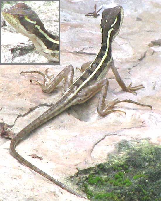 A Striped Basilisk; probably a juvenile male since he doesn't have an adult male crest, and his white line is more vivid that in females. Also he's less mottled than females.